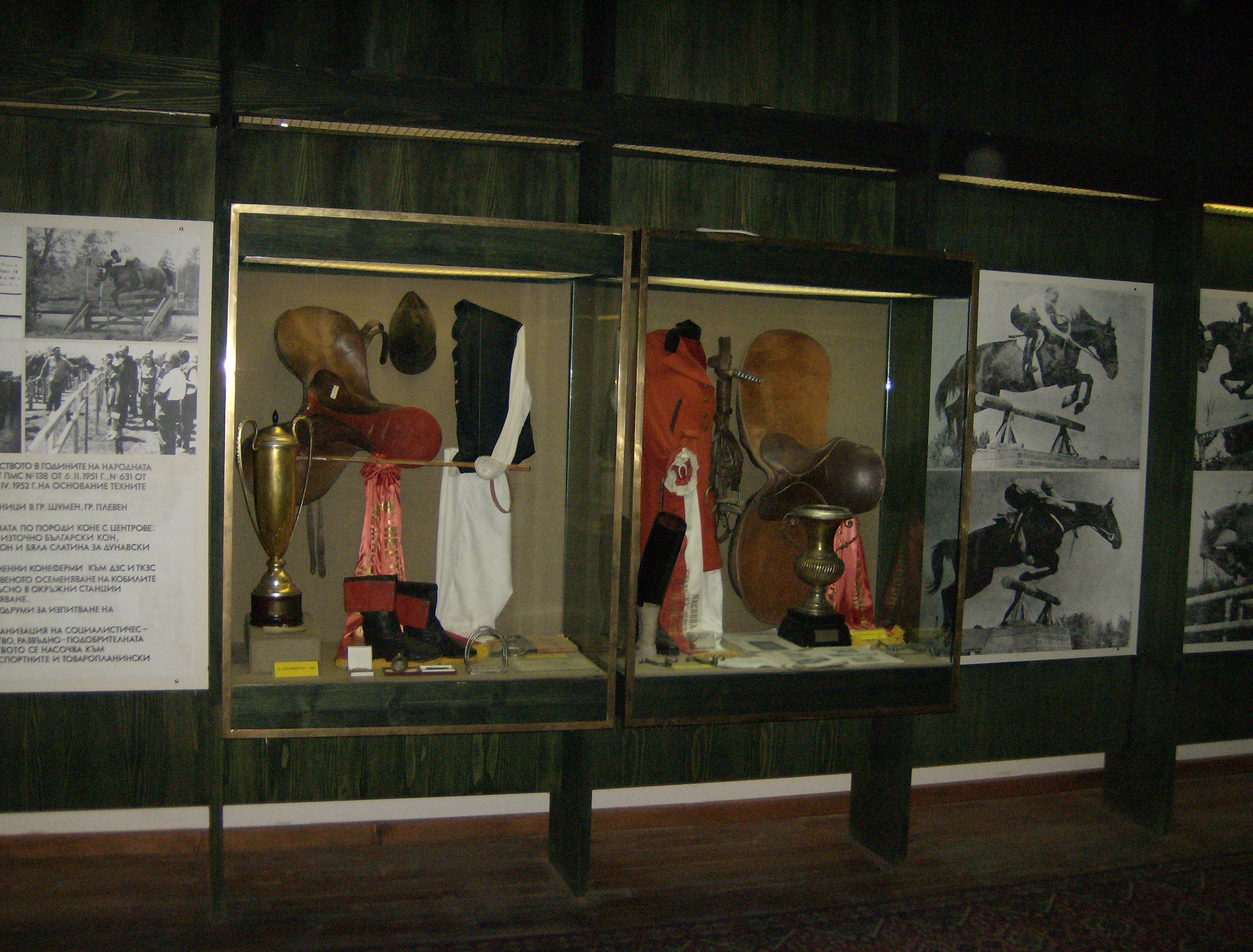 Horse museum Kabiuk